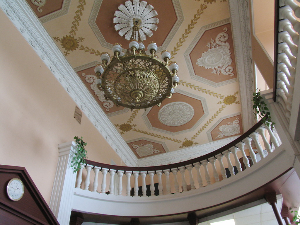 Moscow, Stalinist skyscraper on Kotelnicheskaya naberezhnaya (1938-52). Interior of the post office on ground floor.